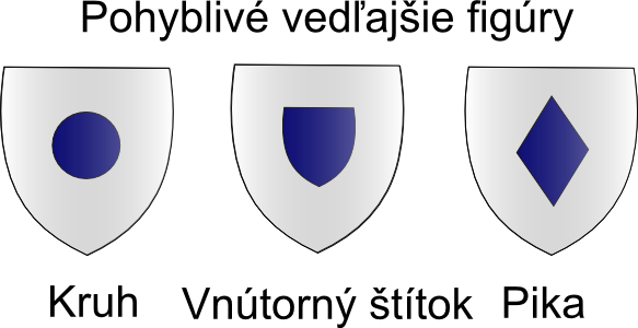 Some of mobile subordinaries used in heraldry, descripted in slovak.